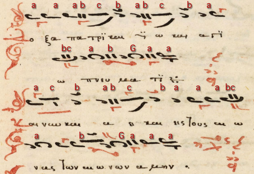 Transcription of psalmody of echos protos in the Anastasimarion of Panagiotes the New Chrysaphes (17th century)